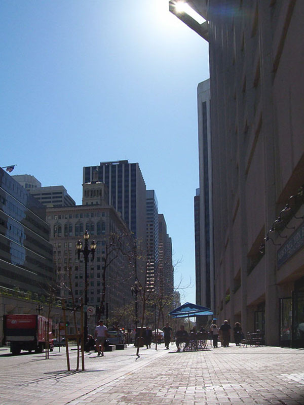 View southwest along Market Street from outside the Hyatt Regency in Embarcadero Center. Closest intersection to camera position is probably Market and Steuart.